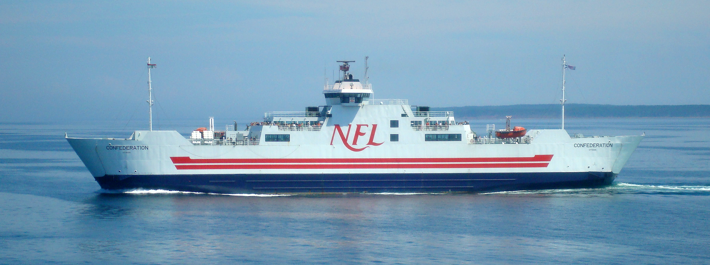 View of the MV Confederation, heading towards PEI. Photo taken from the MV Holiday Island IMO number: 9050008 Callsign: CFD6828